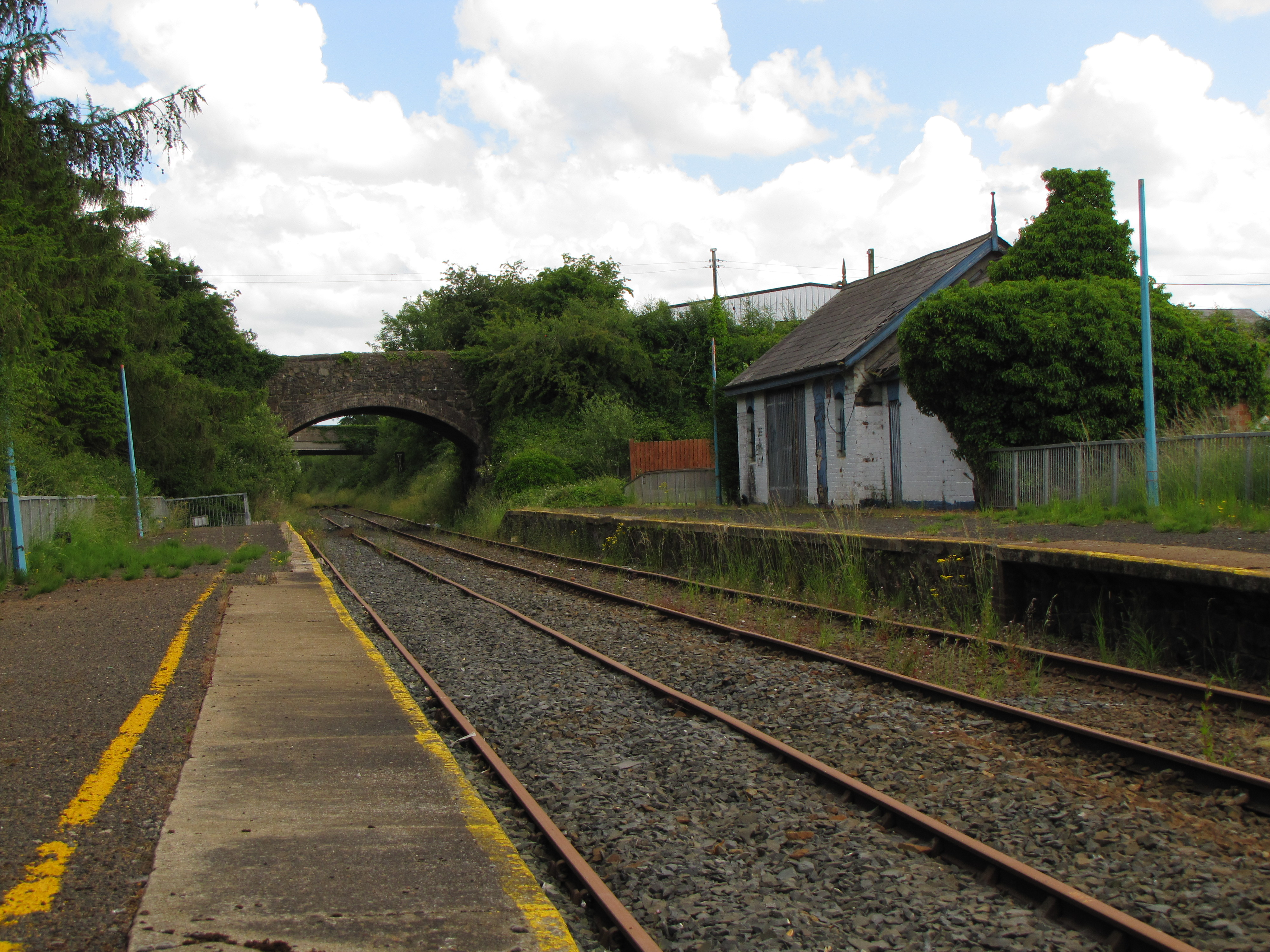 Photograph of Ballinderry Railway Station taken on 27-6-2010